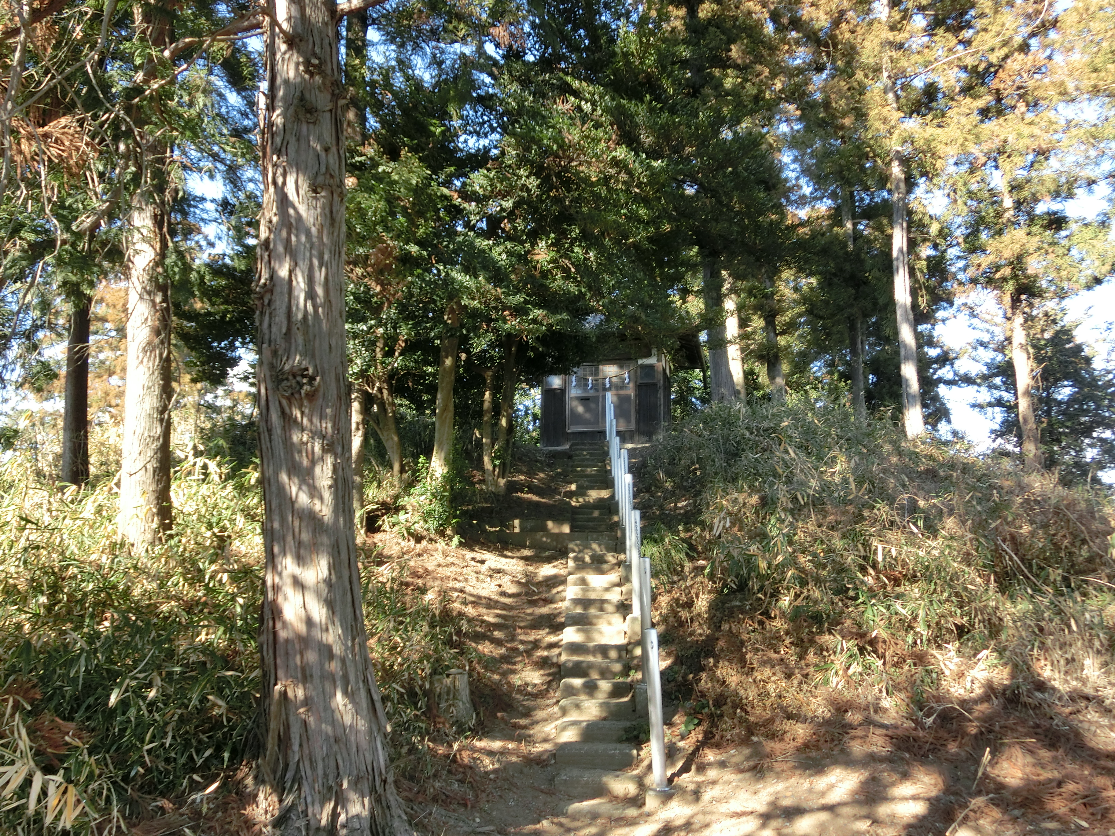 Sengen Jinja (Oka, Fukaya)